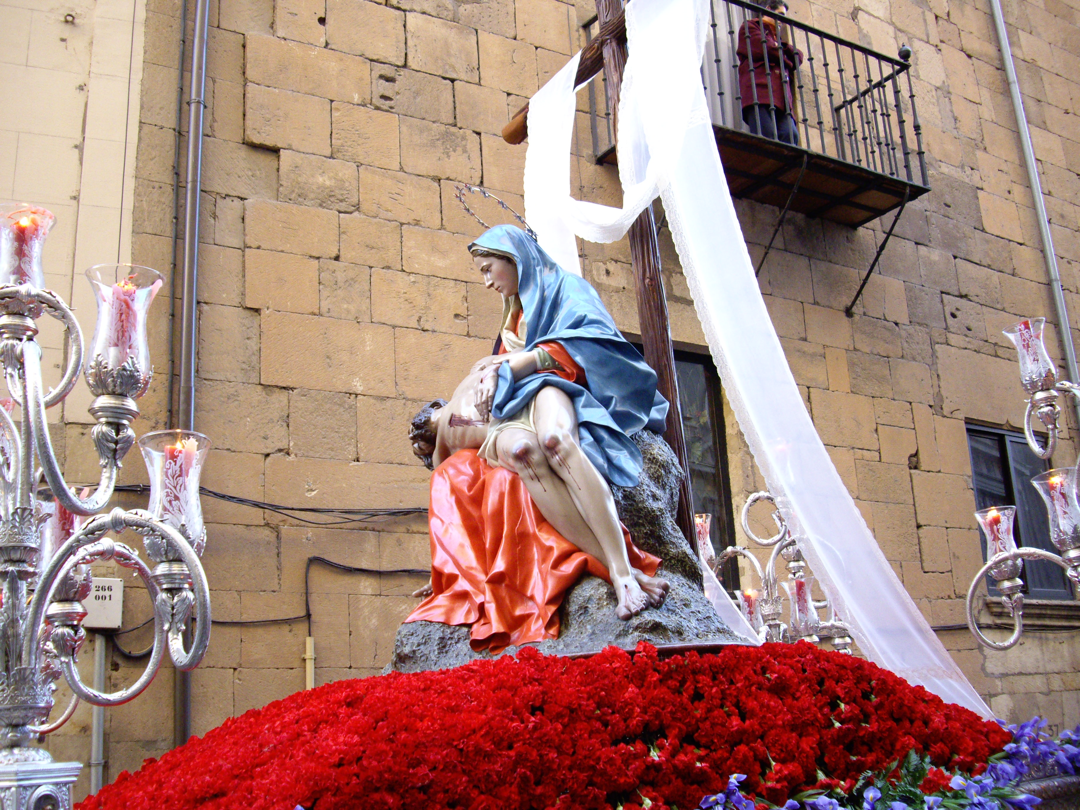 Float of Our Lady of Sorrows (called: Pietà) in the Holy Friday Dawn Procession, Salamanca (Spain). Sculpture by Luis Salvador Carmona